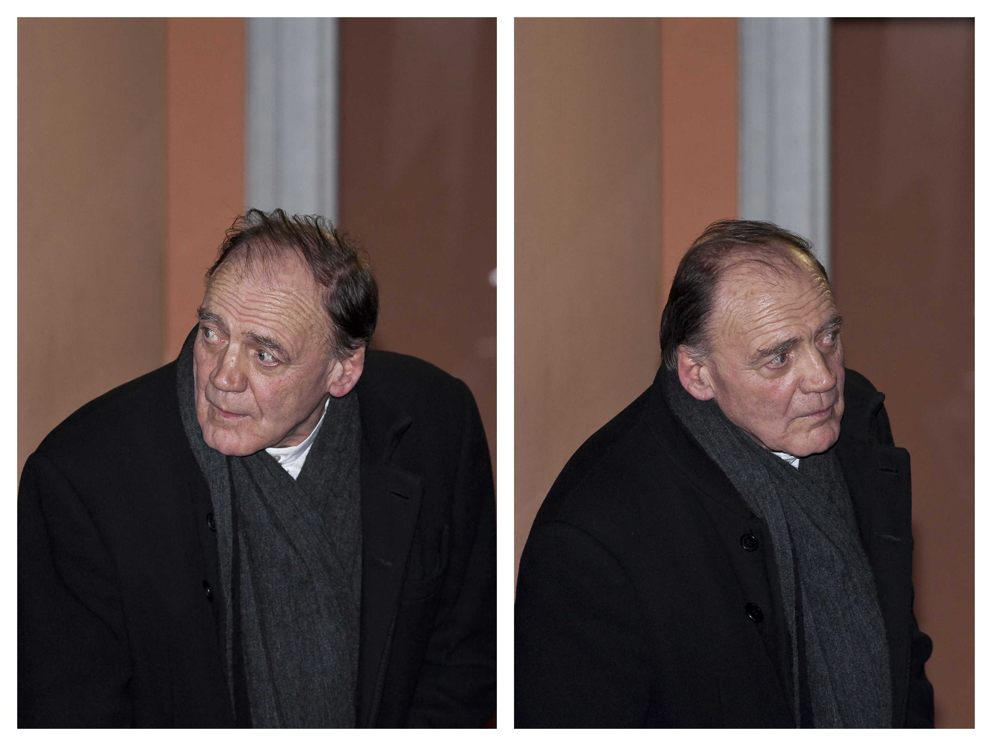 Bruno Ganz (Swiss actor) leaving the premiere of "The Reader" at the 59th Berlin International Film Festival